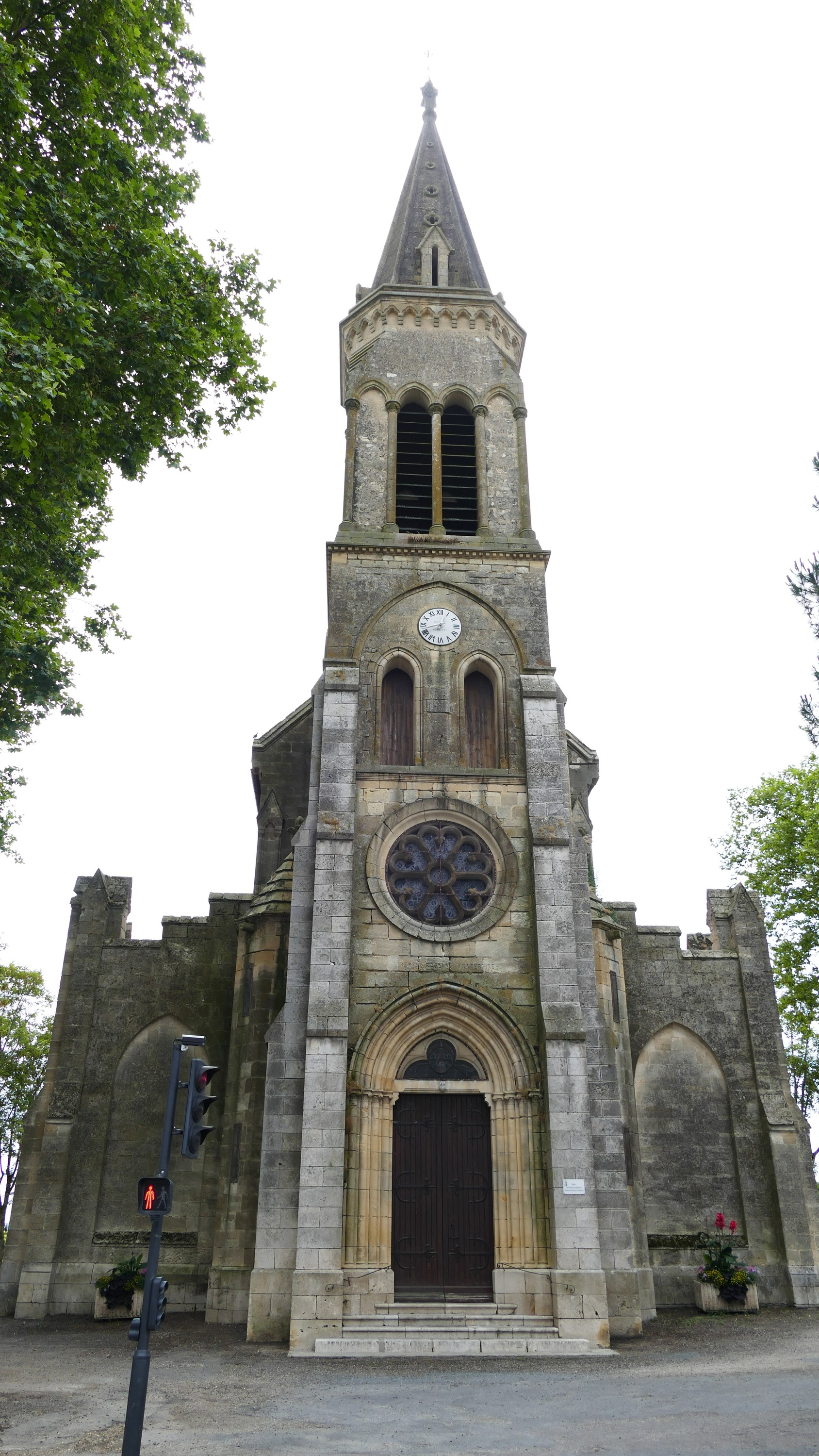 Our Lady's church in Barbaste (Lot-et-Garonne, Aquitaine, France).